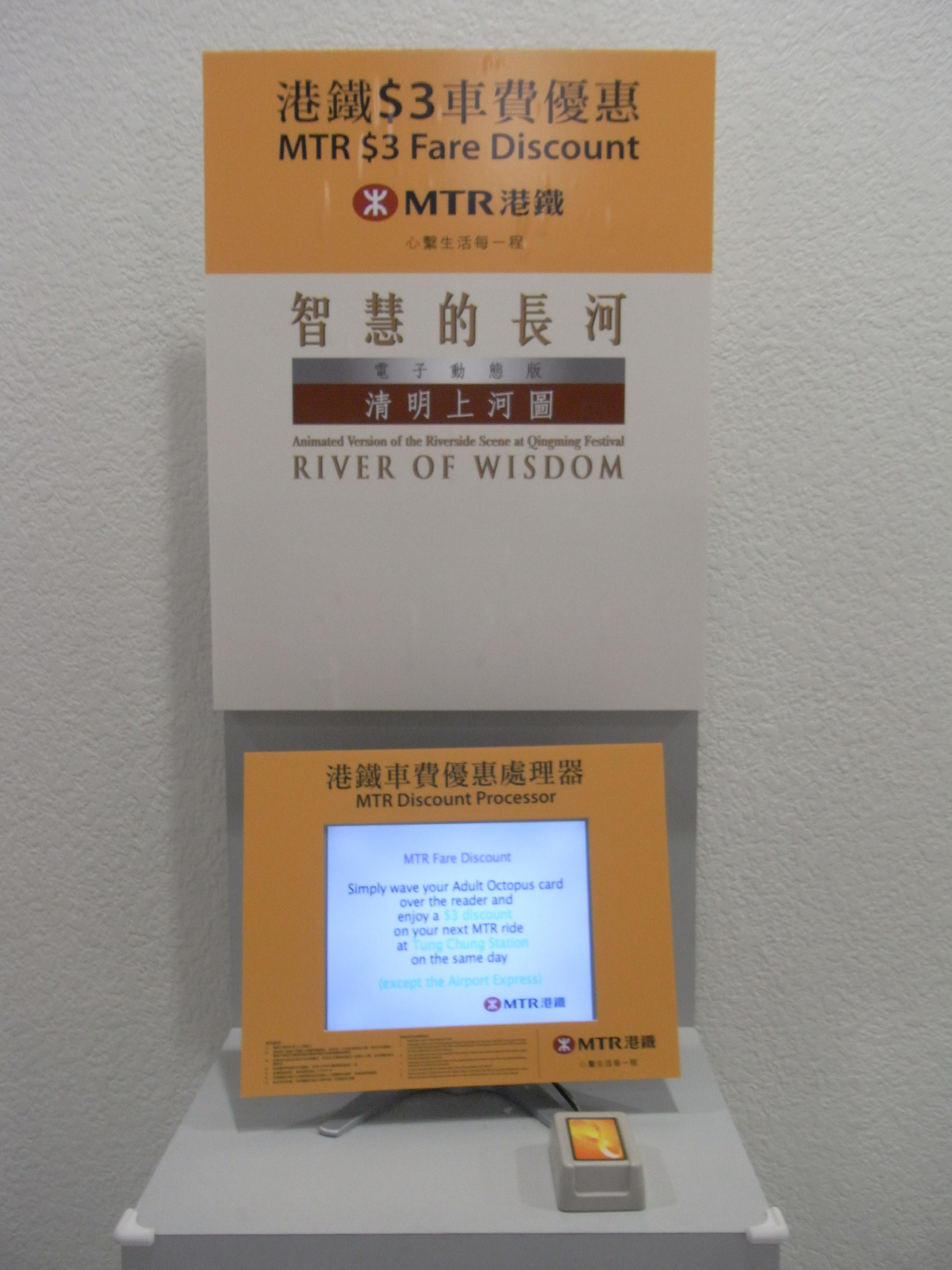 November 2010 in AsiaWorld-Expo, Chek Lap Kok, Hong Kong